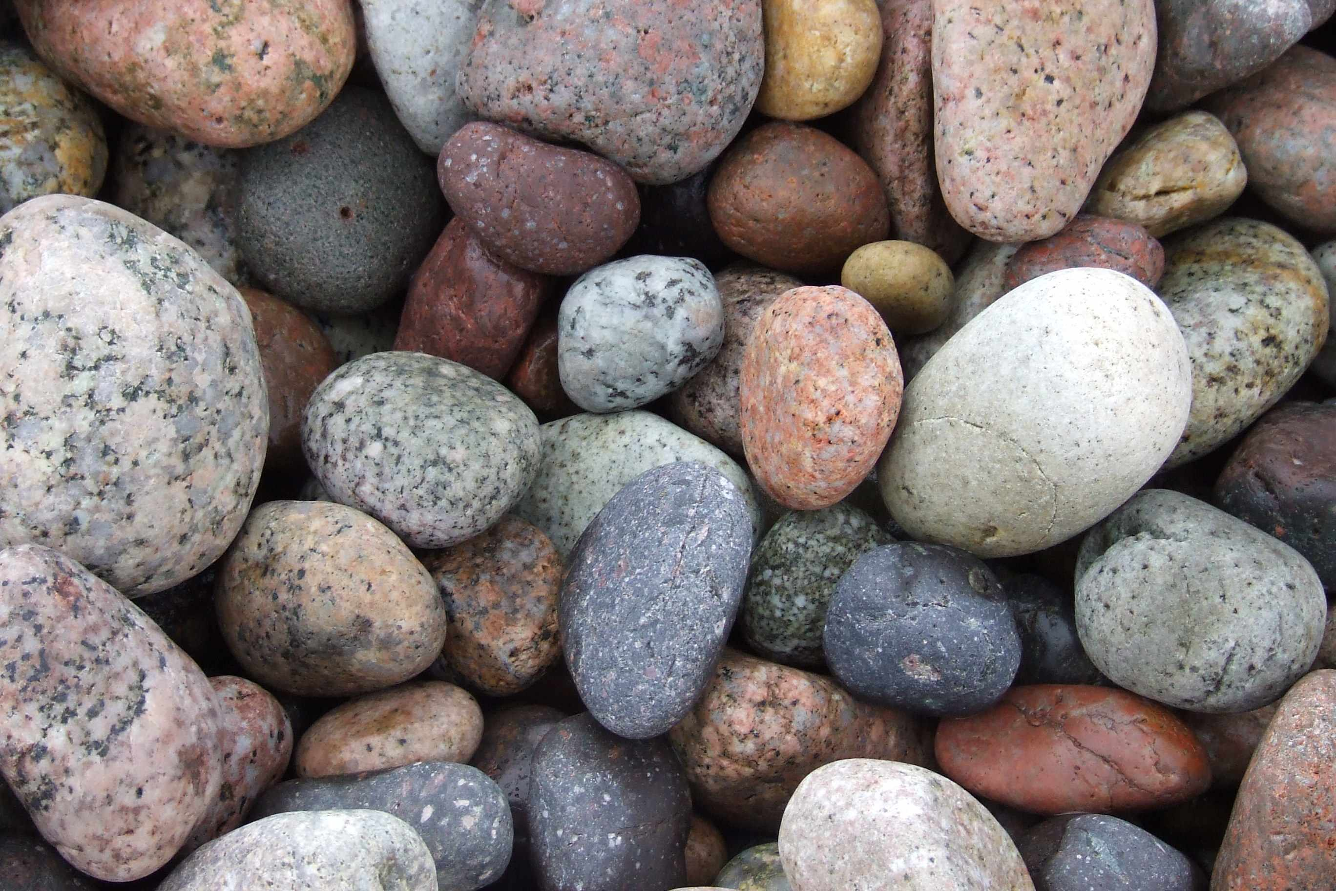 Coloured stones - Porto beach - Corse (France)